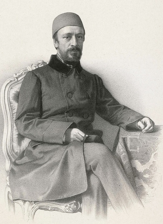 Portrait of Mehmed Emin Ali Pasha, Ottoman statesman (March 5, 1815 – September 7, 1871)